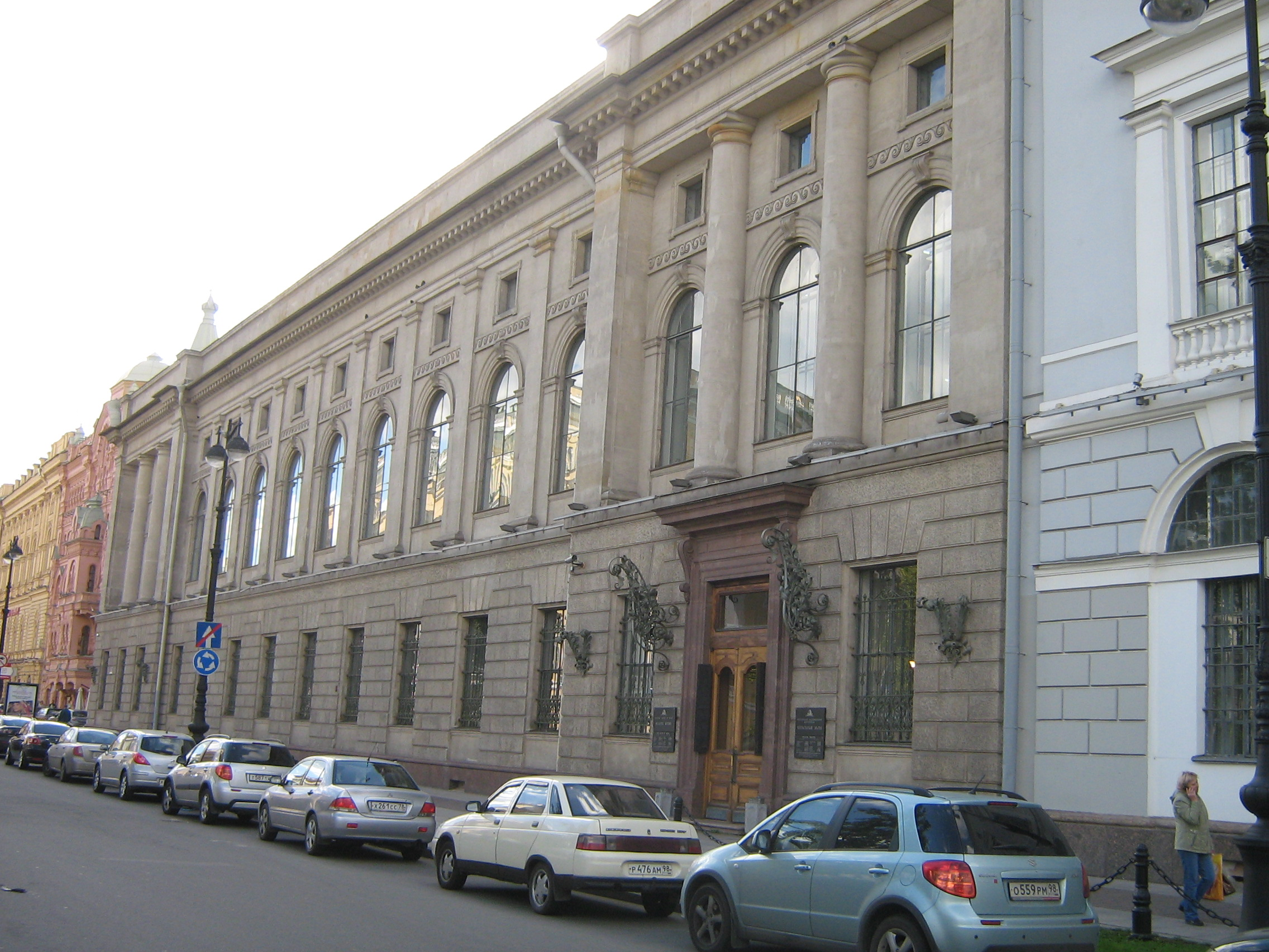 Saint Petersburg (Russia), Nevsky Avenue.